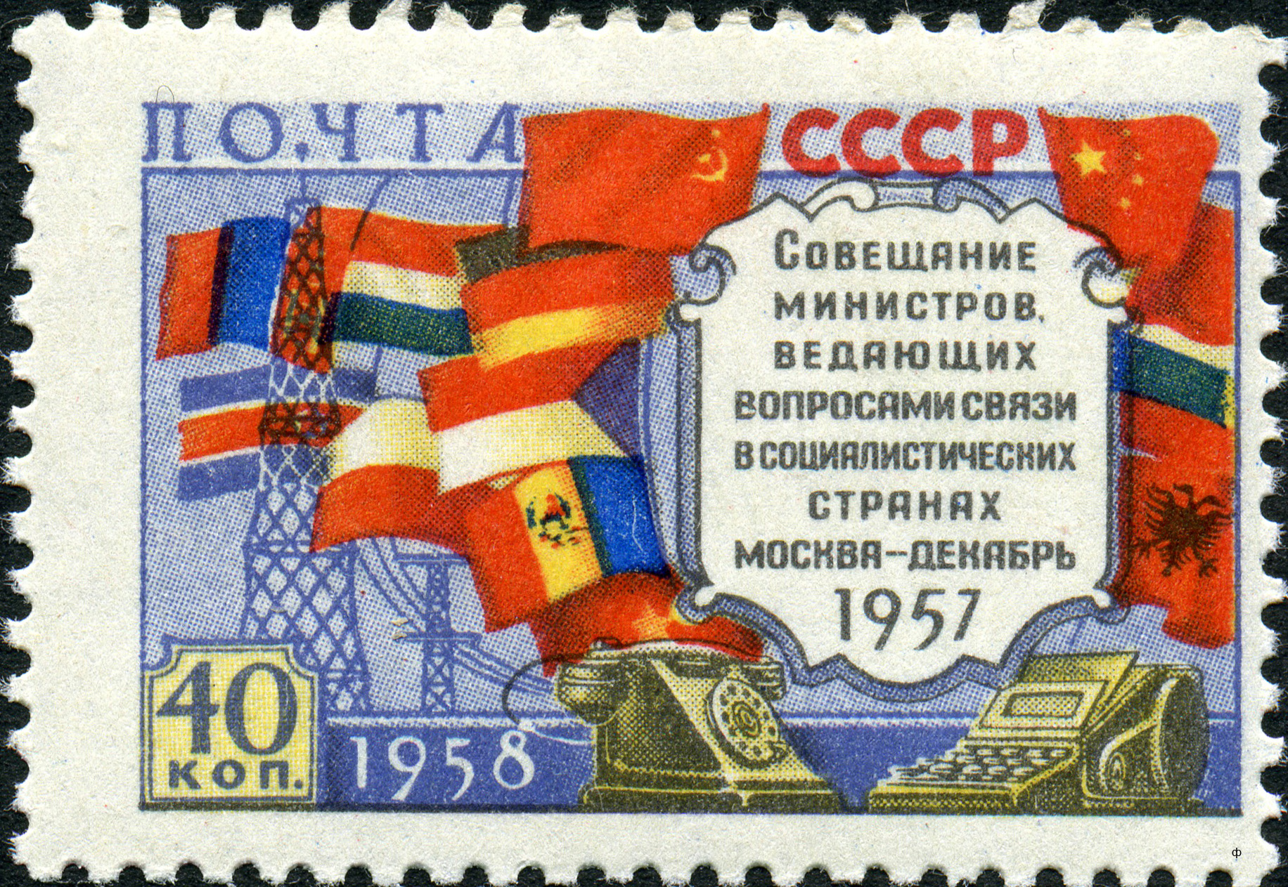 USSR postage stamp, 1958, Moscow meeting of Communication Ministers of socialist countries, 40 kopecks